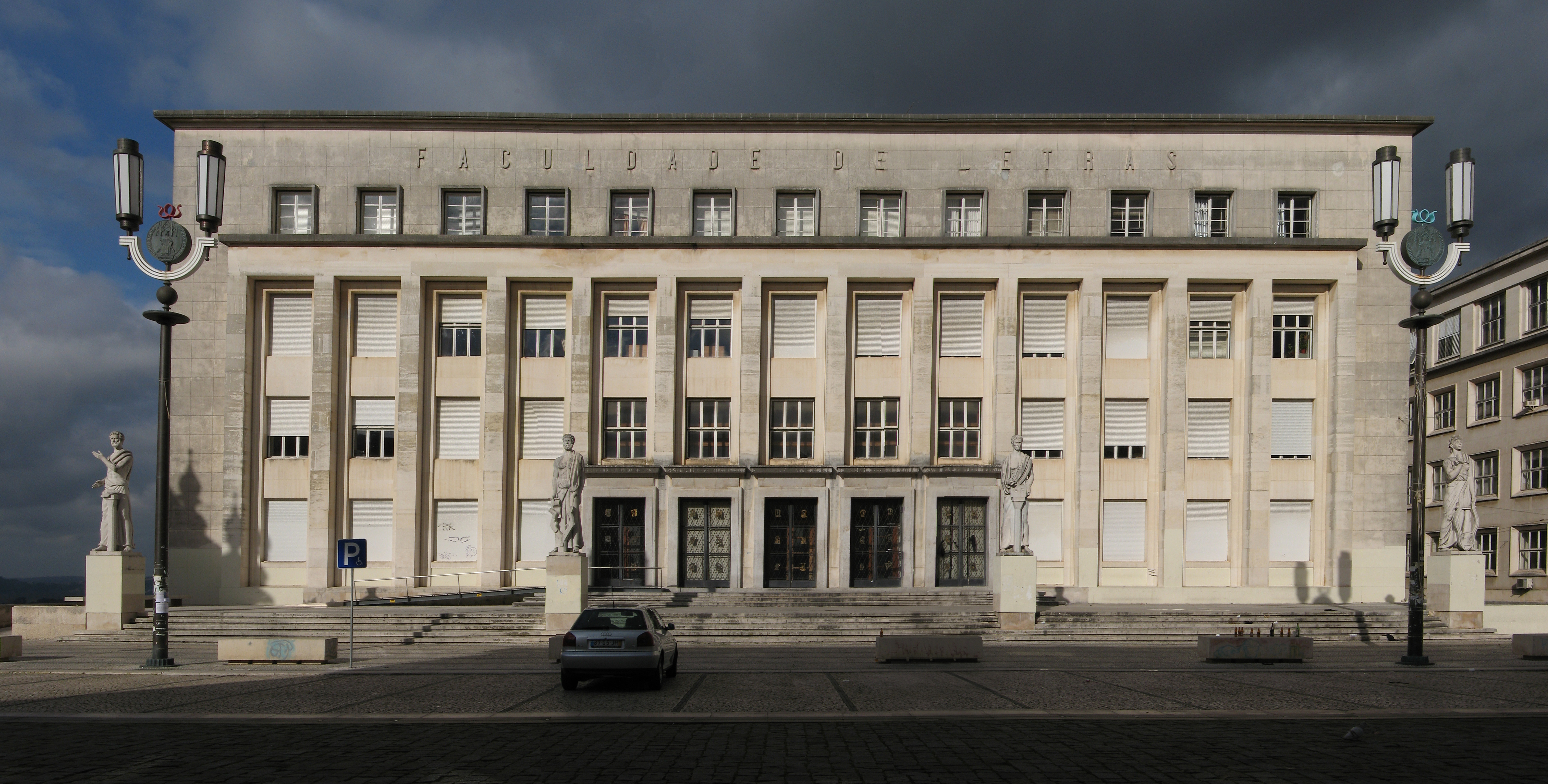 The faculty of philosophy at University of Coimbra